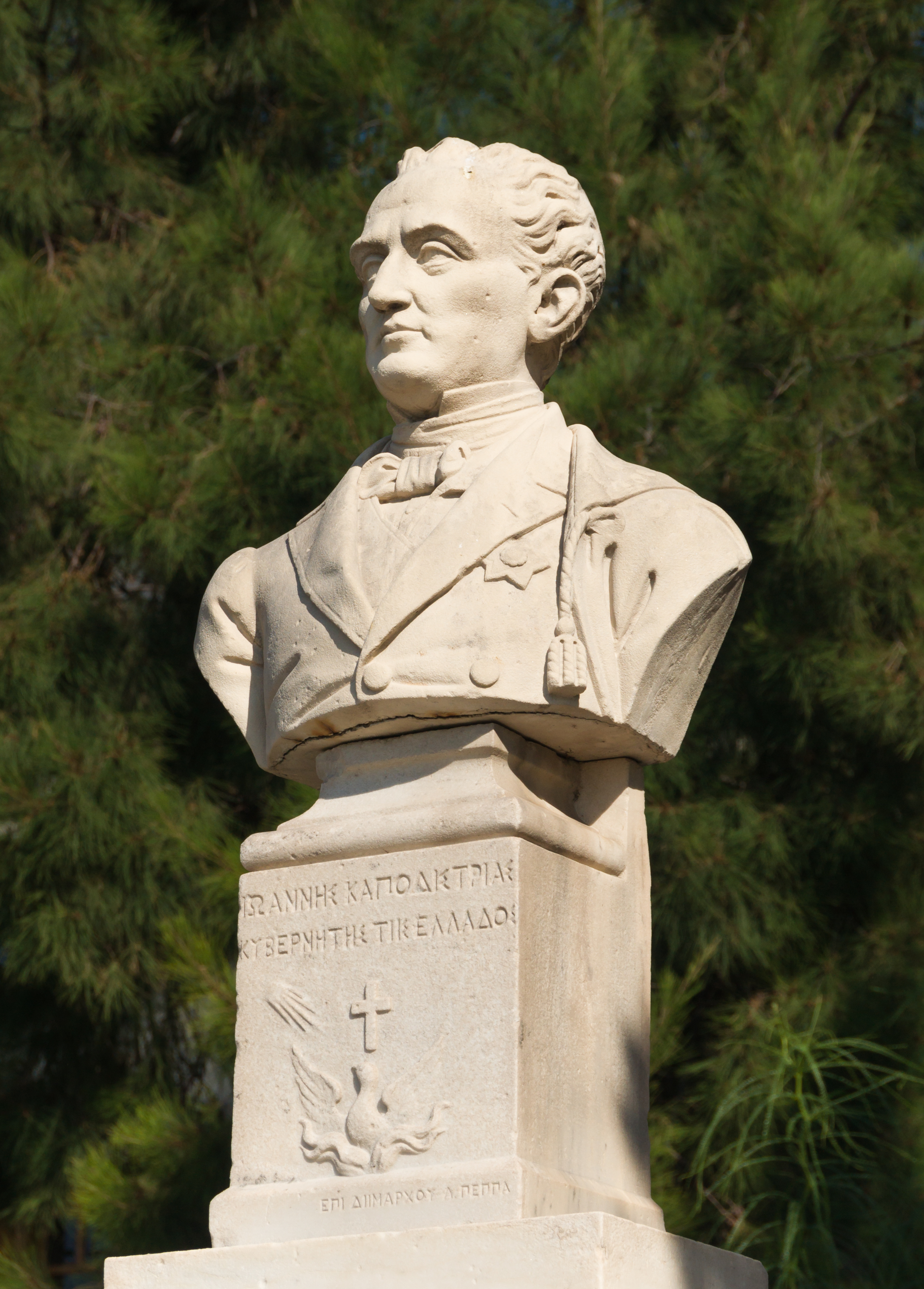 Bust of Ioánnis Kapodístrias, first governor of modern Greece, by Karakatsanis, 1887, Aegina island, Greece.